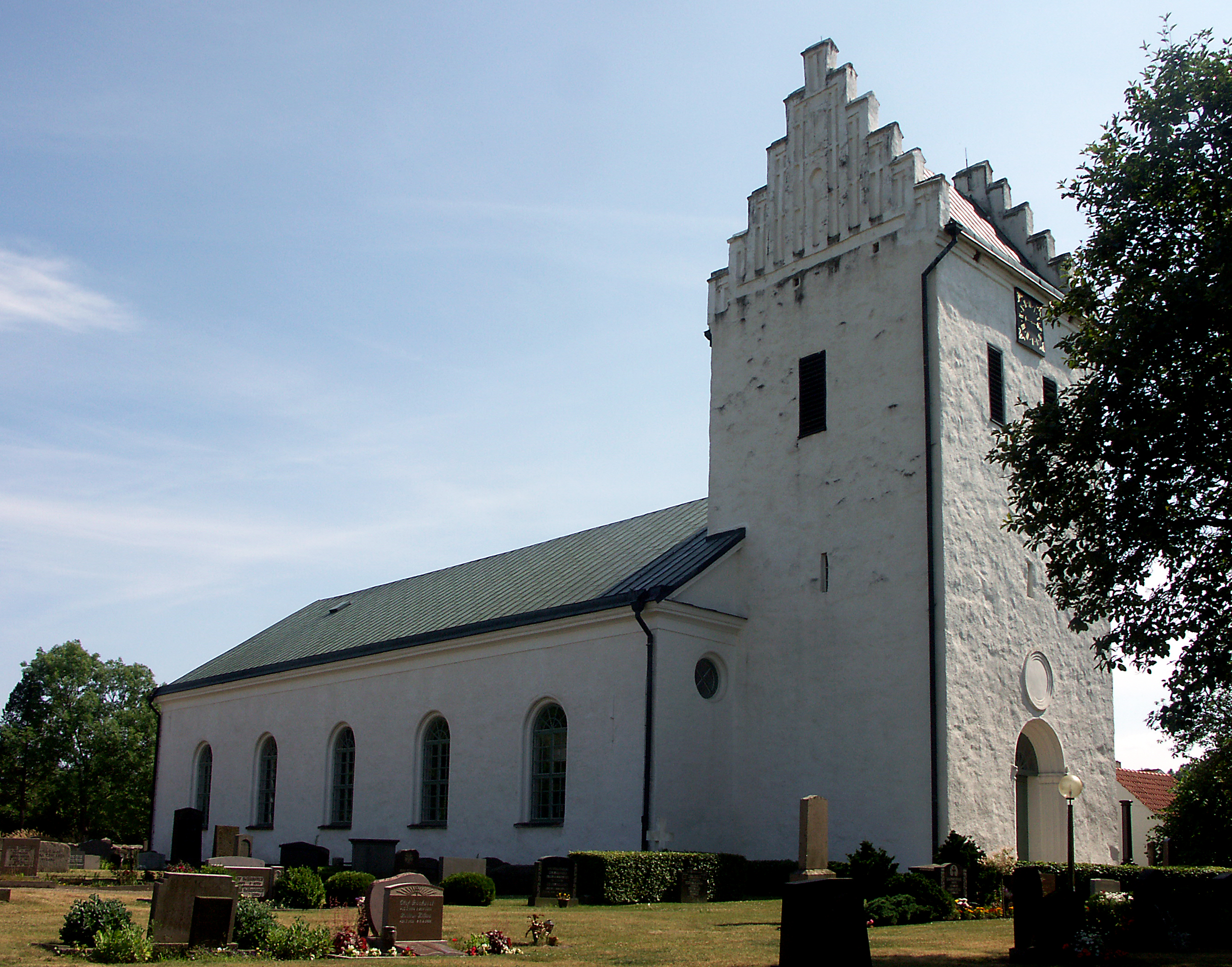 Exterior of Skepparslövs kyrka, Church of Skepparslöv, in Scania, Sweden.